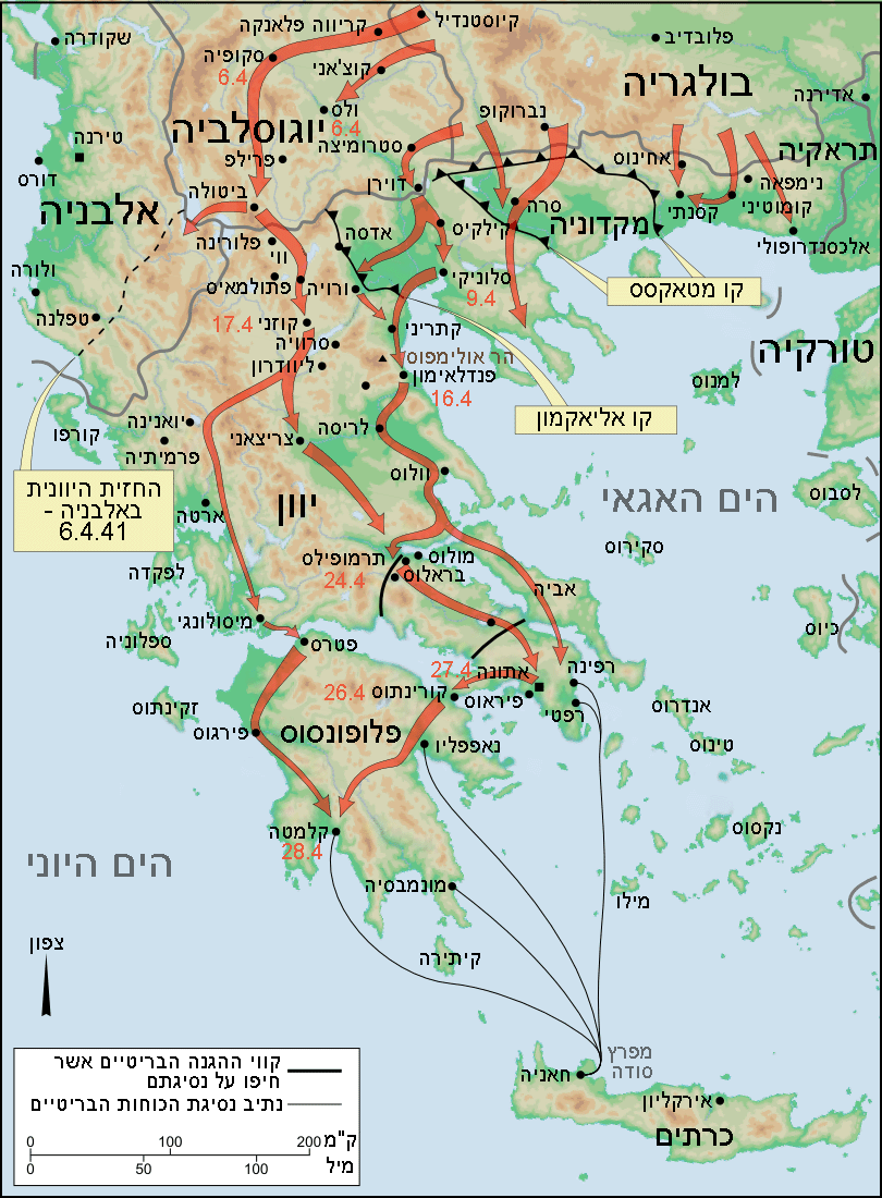 File:Battle of Greece WWII map-fr.png